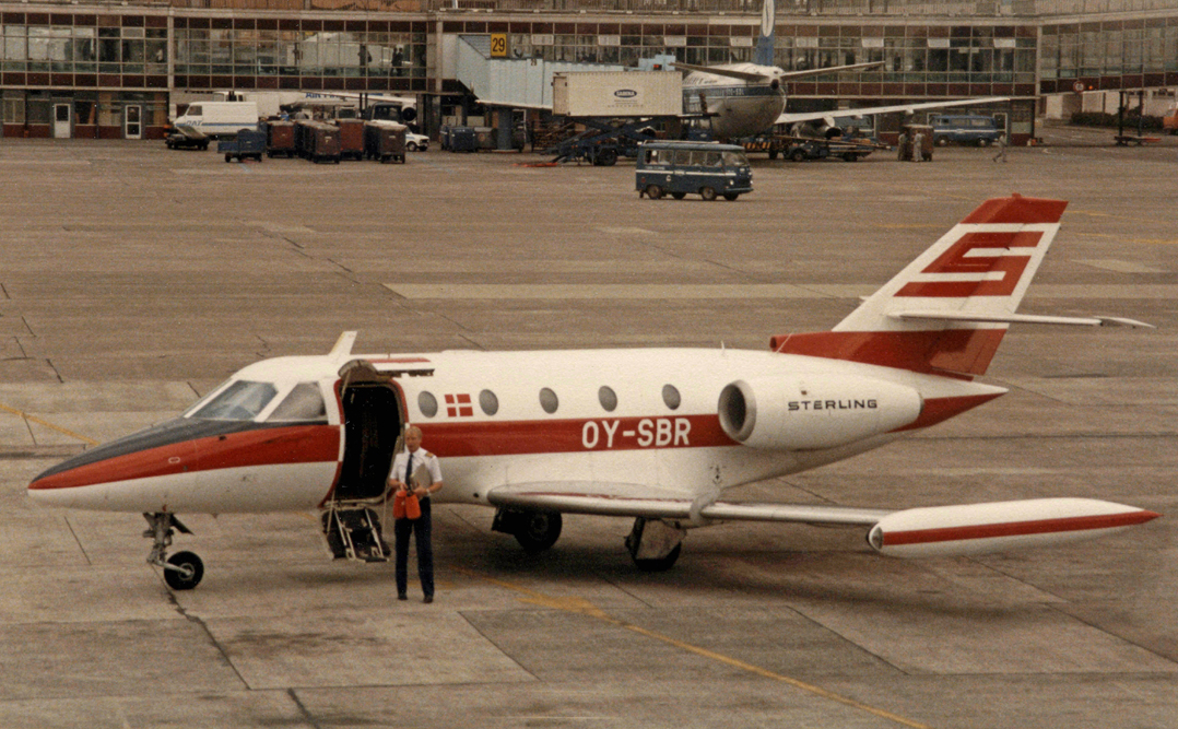 Aerospatiale SN601 Corvette of Sterling Airways at Brussels Airport in 1985